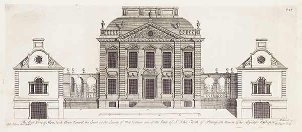 mavisbank house, midlothian, Scotland. Drawing by William Adam (1688-1748) from Vitruvius Scoticus (1812)